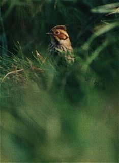 Emberiza pusilla observed in heligoland.